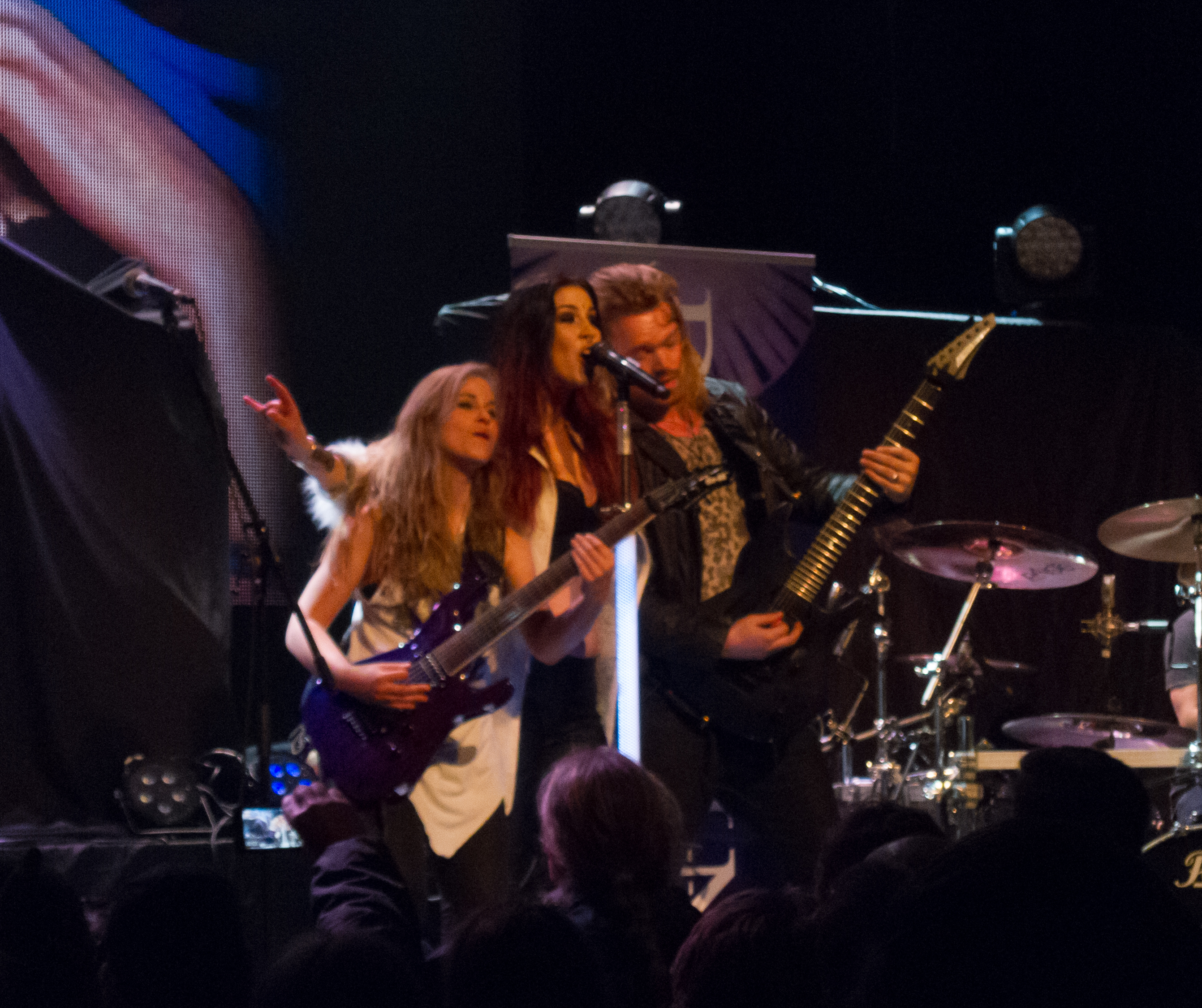 Delain performing at the London Music Hall in London, ON